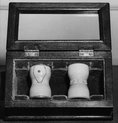 The gavel of the United States Senate, used by the presiding officier (Vice President or President Pro Tempore, usually). This gavel on the right is currently in use, and was a gift from India in 1954. It replaced the gavel on the left, which had been in use since at least 1831 and possibly 1789, but which had come apart earlier in 1954. Both gavels are kept in the mahogany box, which is carried into the Senate chamber each day there is a session. For more information, see here and here.